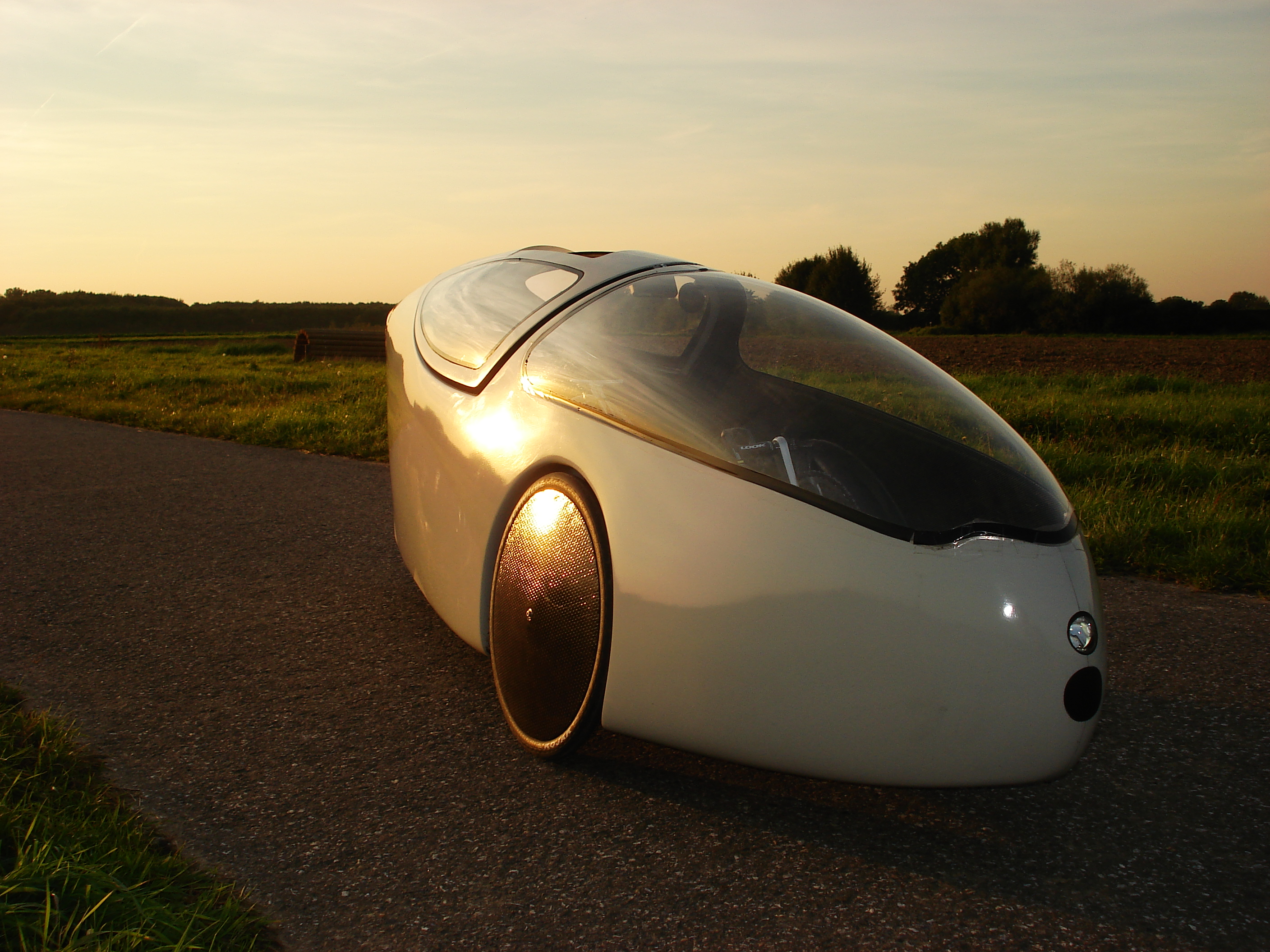 Fast type of velomobile in carbon sandwich construction